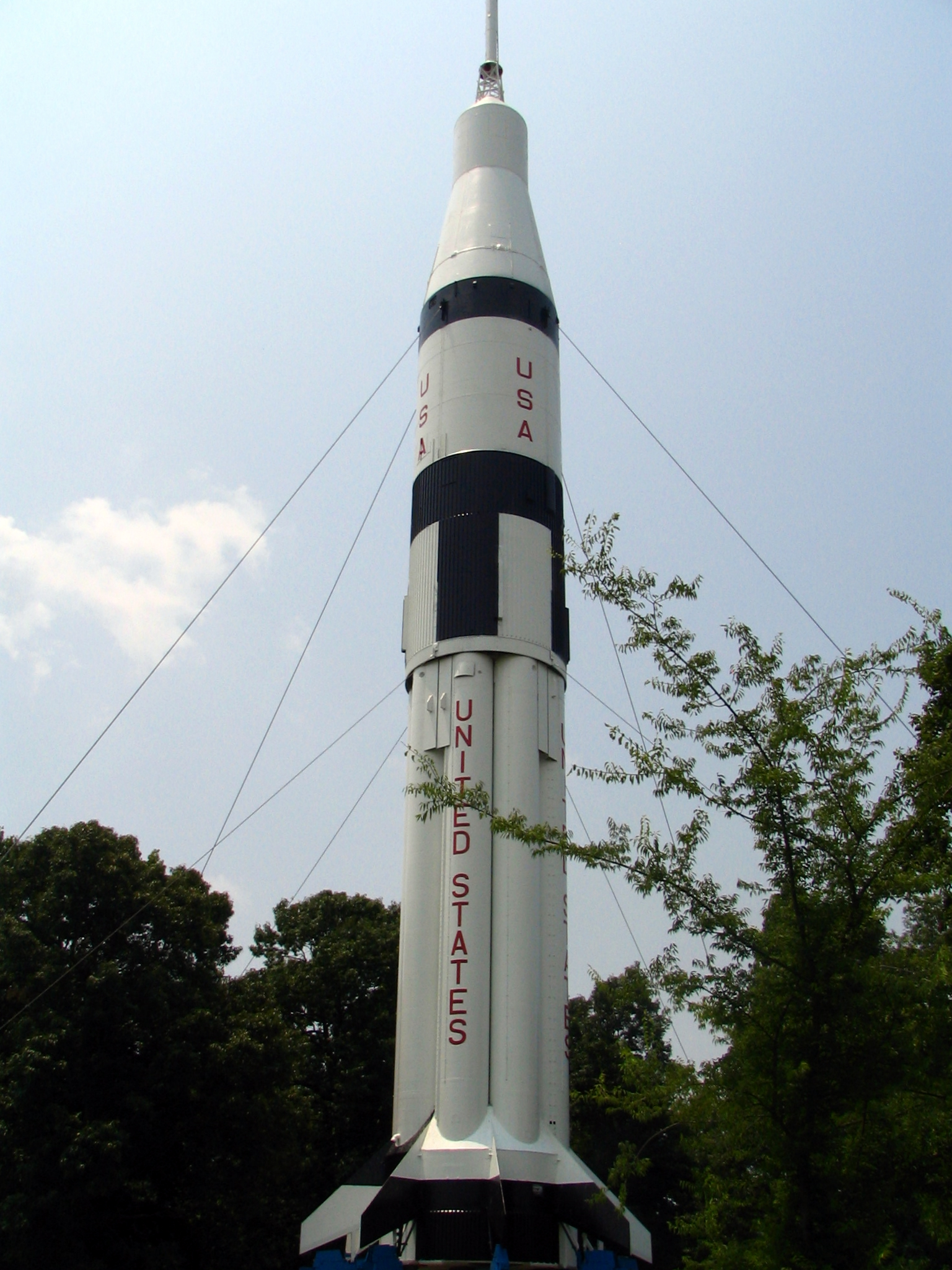 If you've never driven Interstate 65 south across the Alabama border, then this rocket will catch you offguard. When you get up close, you see that it is at a Rest Area. It's the Saturn IB rocket, and I suppose it came from the Huntsville NASA base. I decided to upload this picture today after seeing this rocket in an ad for chevrolet in the Dec. 1963 issue of Life Magazine.